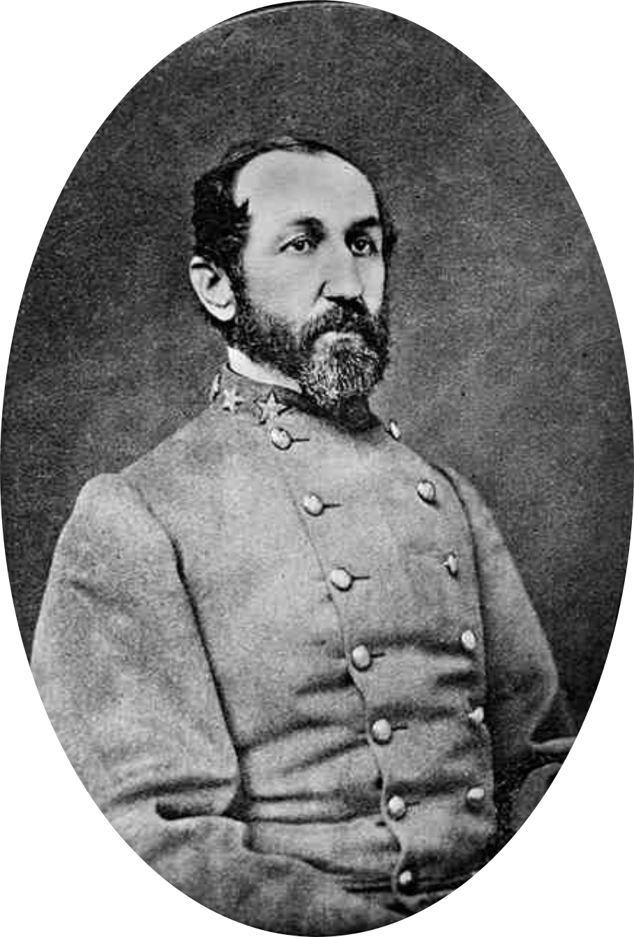 Brigadier General Josiah Gorgas, Confederate States Army, Library of Congress photo from Smithsonian